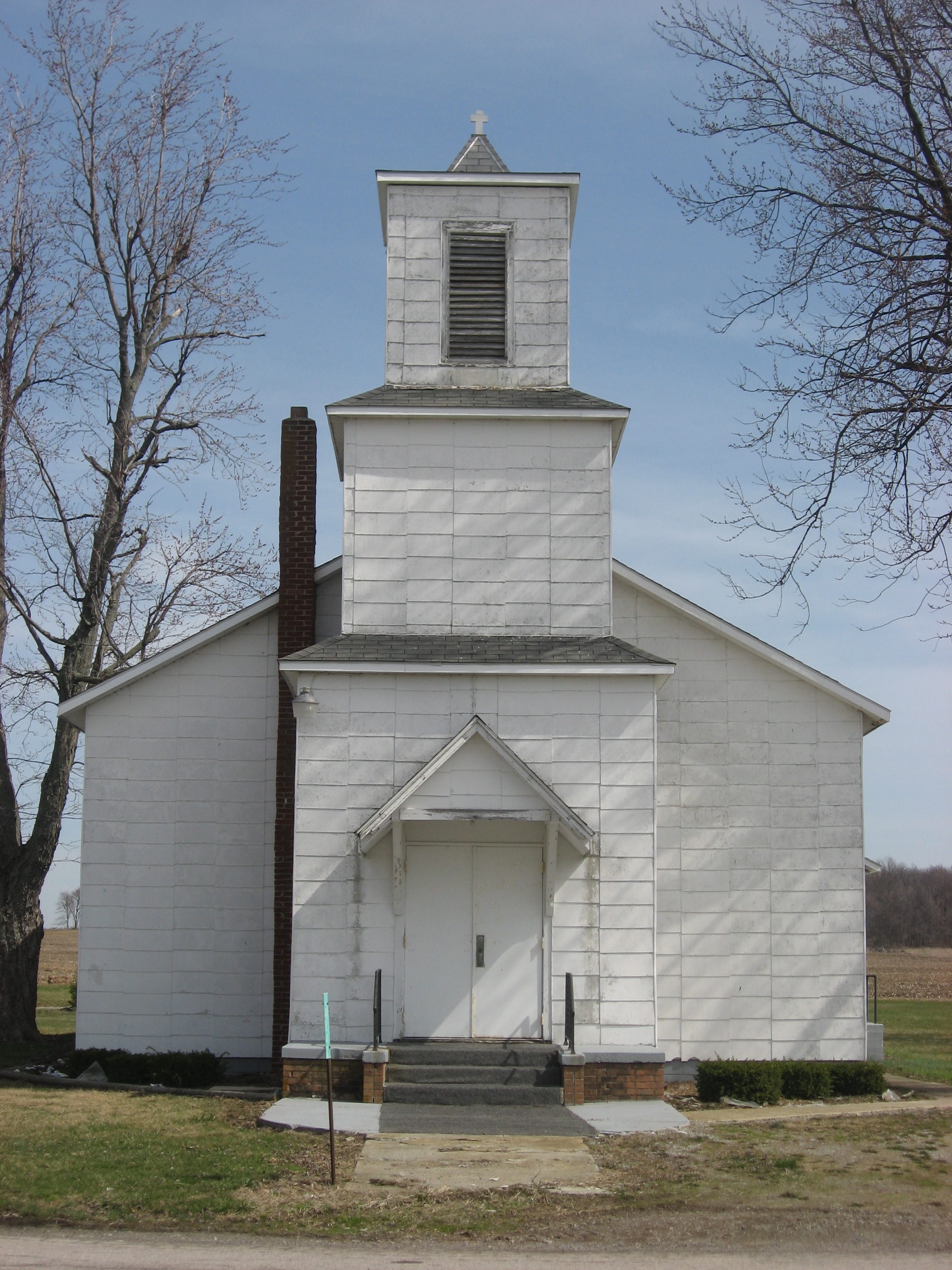 Holden United Methodist Church, located along State Route 117 on the Hardin County side of Holden, Ohio, United States.